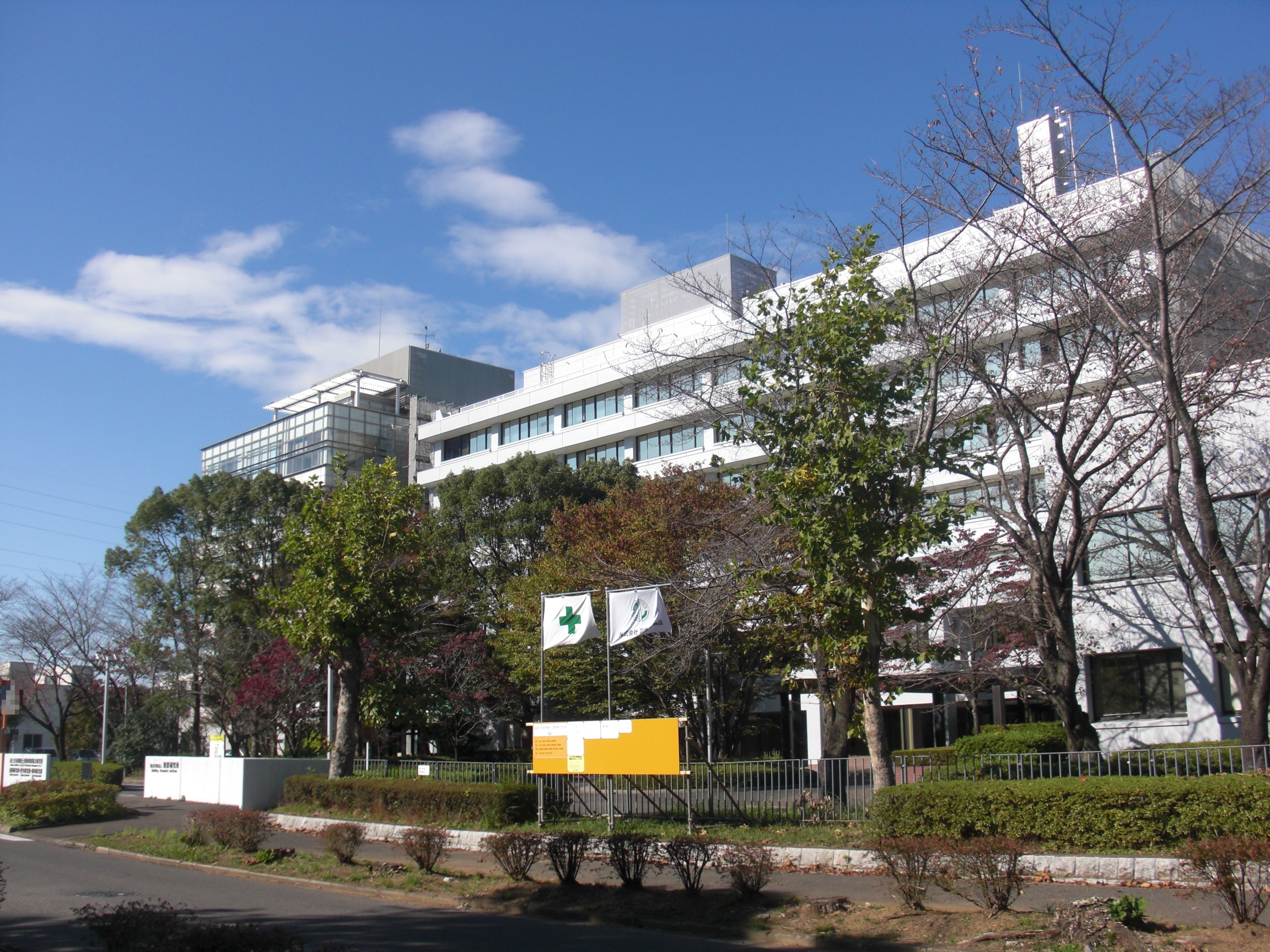 This is the building of Building Research Institute, which is located Tsukuba, Ibaraki, Japan.